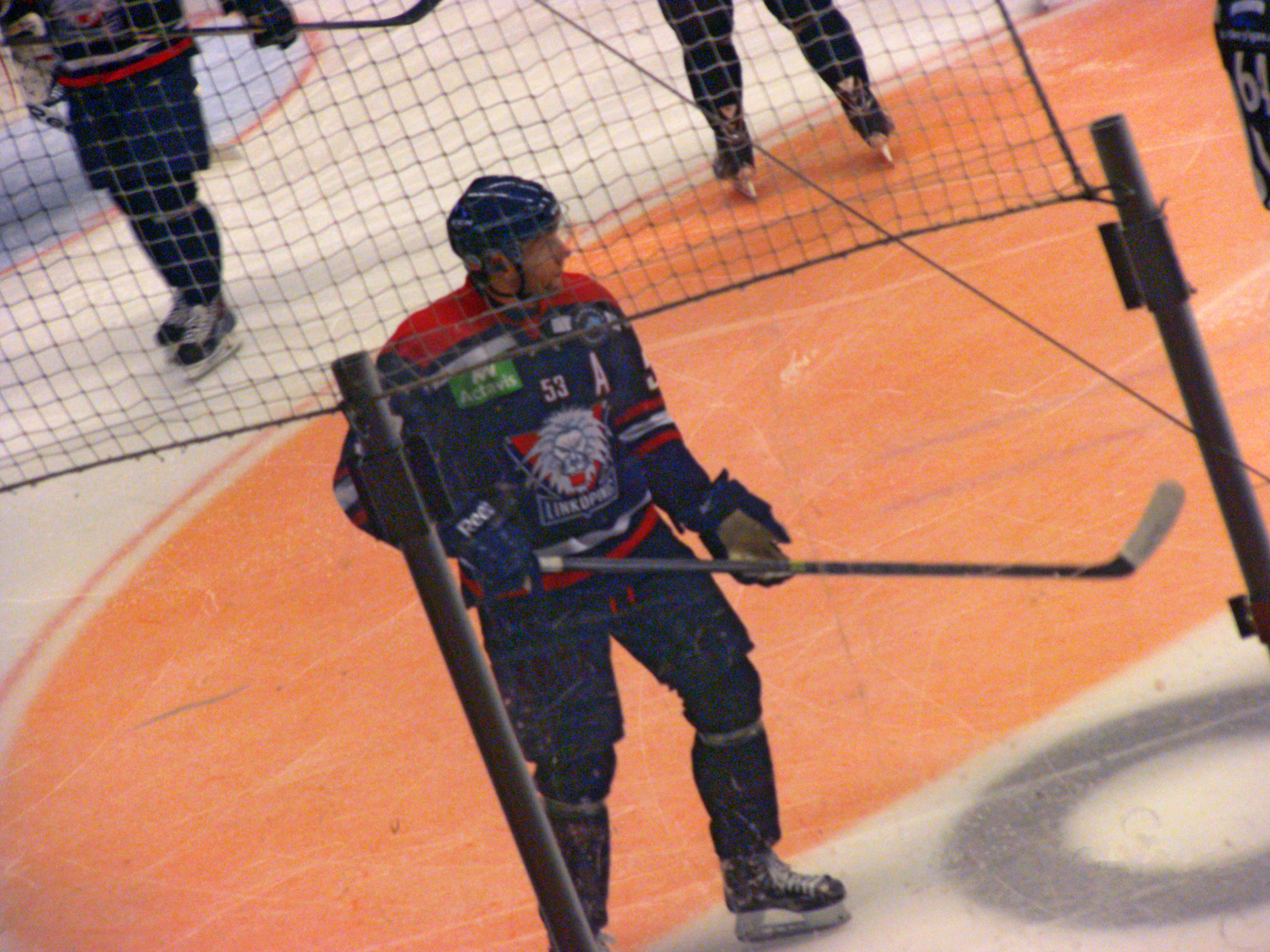 Jonas Junland